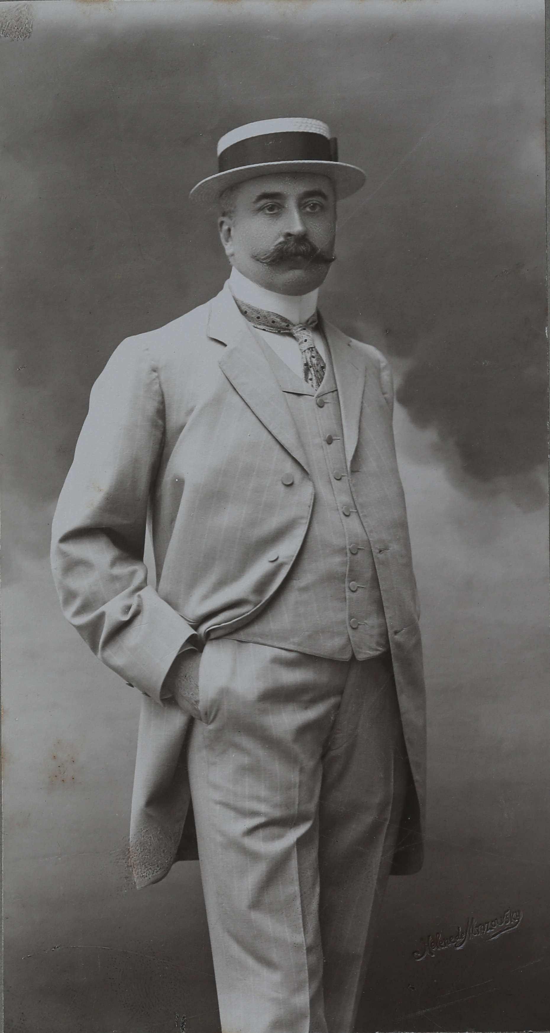 Fotografia Józef Kazimierz Ziemacki (ur. 18 września 1856 w Wilnie, zm. 30 września 1925)